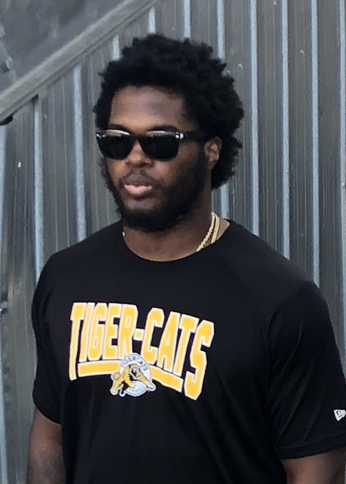 Lorenzo Mauldin, defensive end for the Hamilton Tiger-Cats.